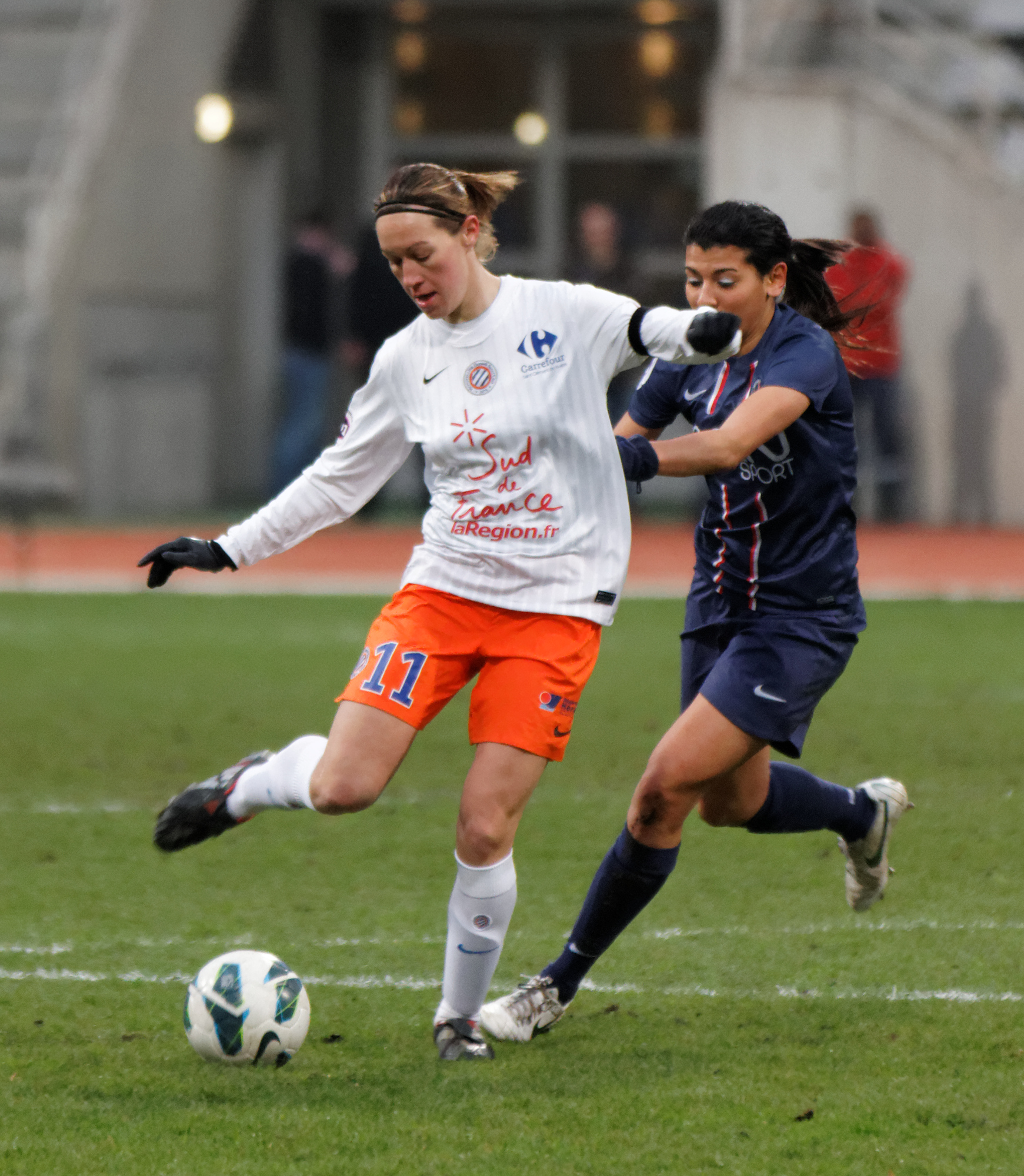 PSG-Montpellier, January 13th, 2013. Ludivine Diguelman (Montpellier) and Kenza Dali (PSG).